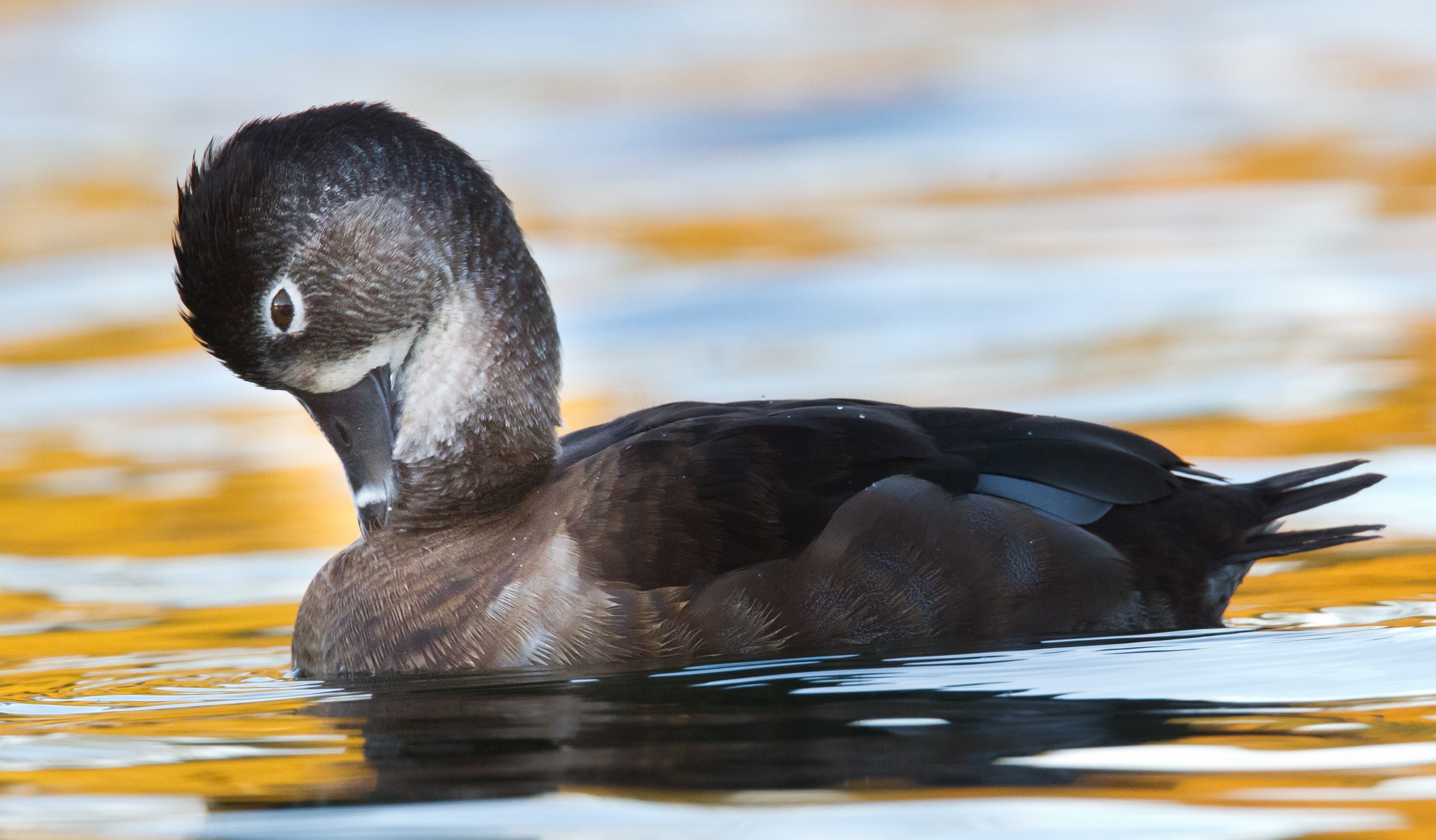 A female Ring-necked Duck